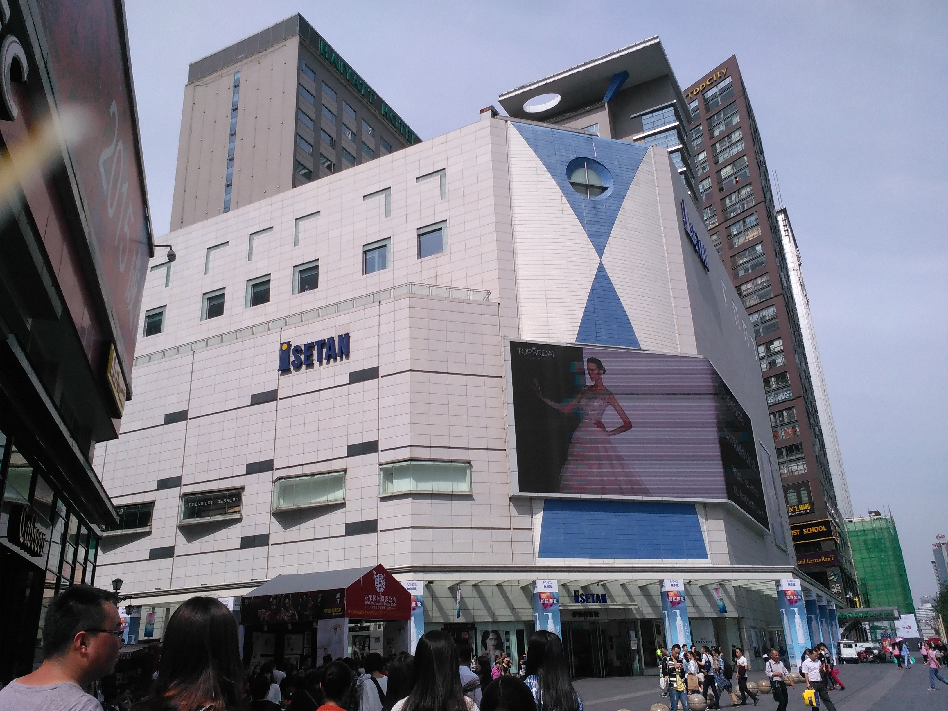 Isetan - Chengdu